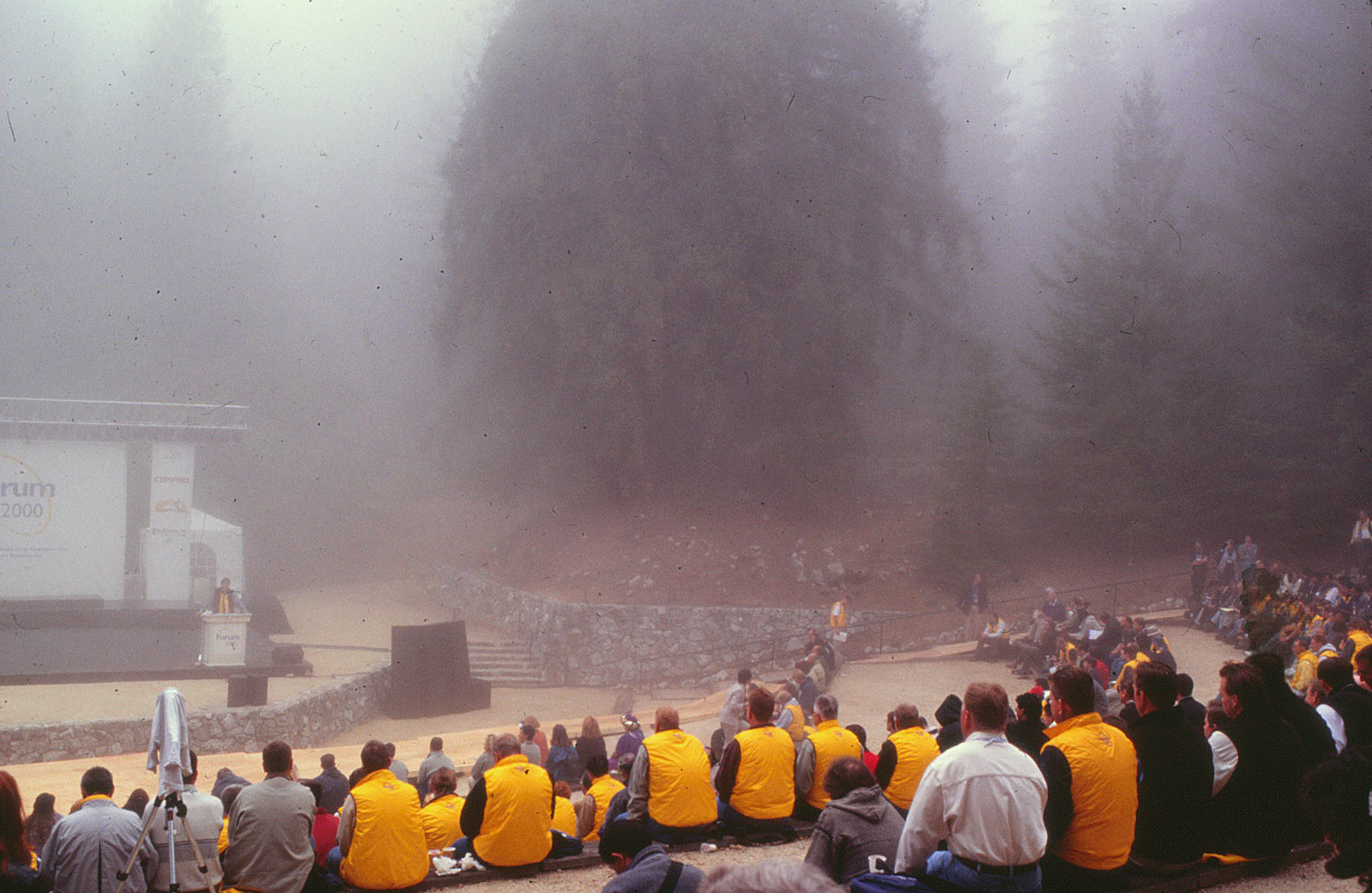 Caldera Systems CEO Ransom Love speaking about the recently announced acquisition of SCO Unix during the opening keynote sessions of the Forum 2000 conference. The normal 'SCO Forum' branding had been shortened to just 'Forum' due to the announcement. The keynotes were held in the early morning fog and mist in the quarry at UC Santa Cruz.